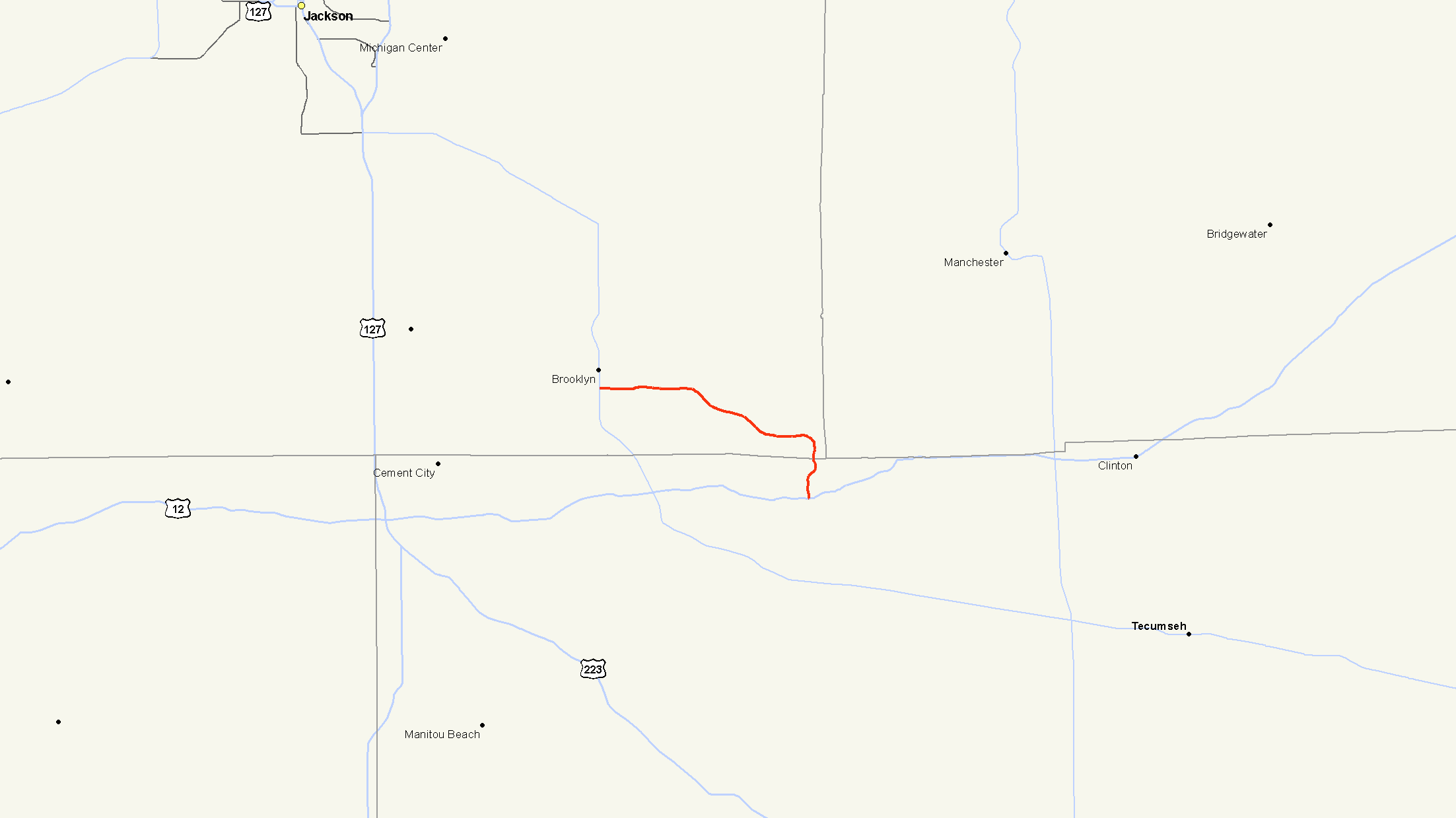 Map of M-124